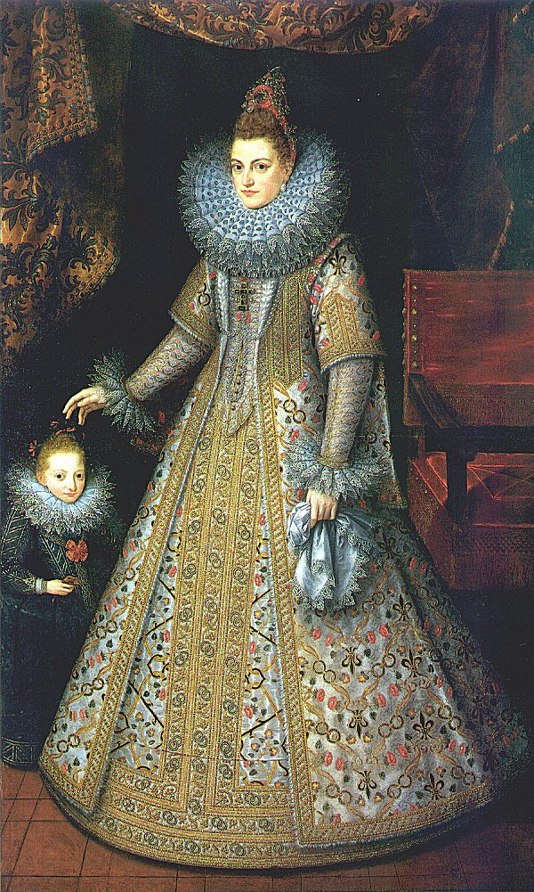 The sitter here was the daughter of Philip II of Spain who in 1599 married her second cousin, the Archduke Albert; the couple, known as ‘the Archdukes’, ruled the Spanish Netherlands as representatives of the Spanish crown, but with the power to establish a dynasty there. Unfortunately the couple were childless and the hopes engendered by their enlightened rule proved groundless. This portrait was given to Anne of Denmark (James I’s Queen) in 1603 by the Ambassador of the Spanish Netherlands, Charles de Ligne, princely count Arenberg, along with one (now lost) of the Archduke Albert. This occurred at a time when James I was seeking accommodation with those regarded as the enemy by Queen Elizabeth. The portrait was recorded in 1649 with a varied and important set of foreign and British royal portraits in the Cross Gallery at Somerset House, the Queen’s London residence. Soon after this it came to be described as Anne Boleyn with Princess Elizabeth and Catherine of Aragon with Princess Mary. The costume is clearly that of the Spanish and not the English court and the small figure is not a child but a dwarf. Though the identity of the sitter and circumstances of the acquisition are well documented the attribution to Frans Pourbus the Younger remains conjectural. This may be the portrait (or at least a version of the portrait) for which Frans Pourbus was paid in 27 June 1600. It seems to match his style better than that of the other names suggested in connection with it: Pantoja della Cruz, Otto van Veen and Gysbrecht van Veen.